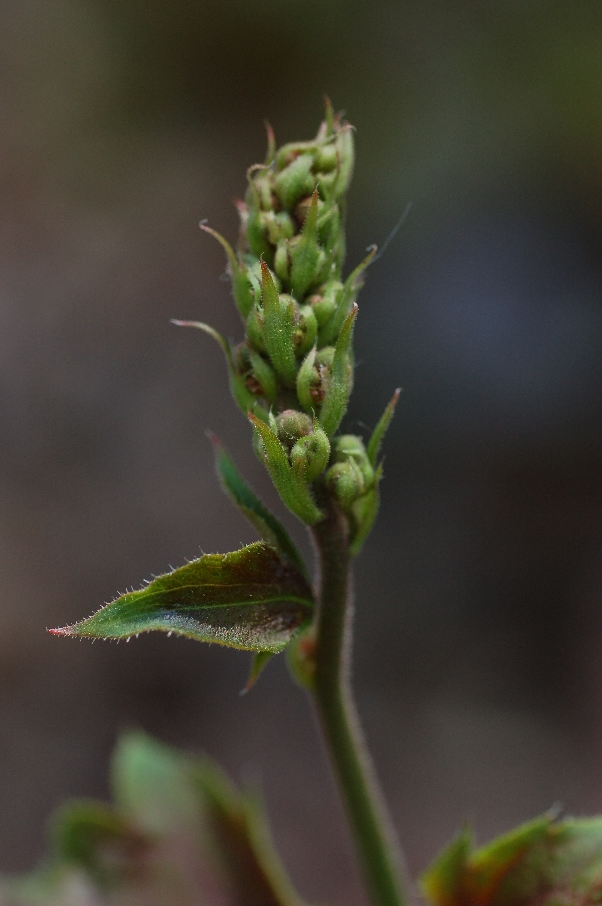 Photograph of an emerging head of the American Alumrooten (Heuchera americana en 'Garnet'). Photo taken at the Mt. Cuba Center where it was identified.